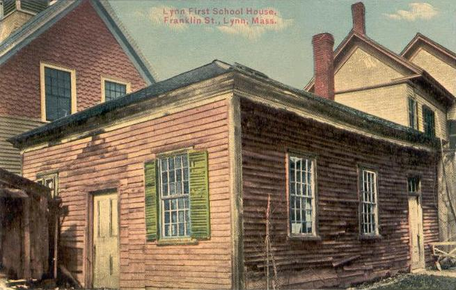 First School House in Lynn, MA; from a c. 1910 postcard.